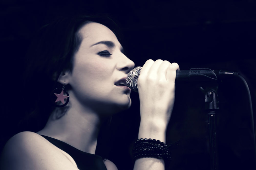 Aylin Aslım, Istanbul 2011